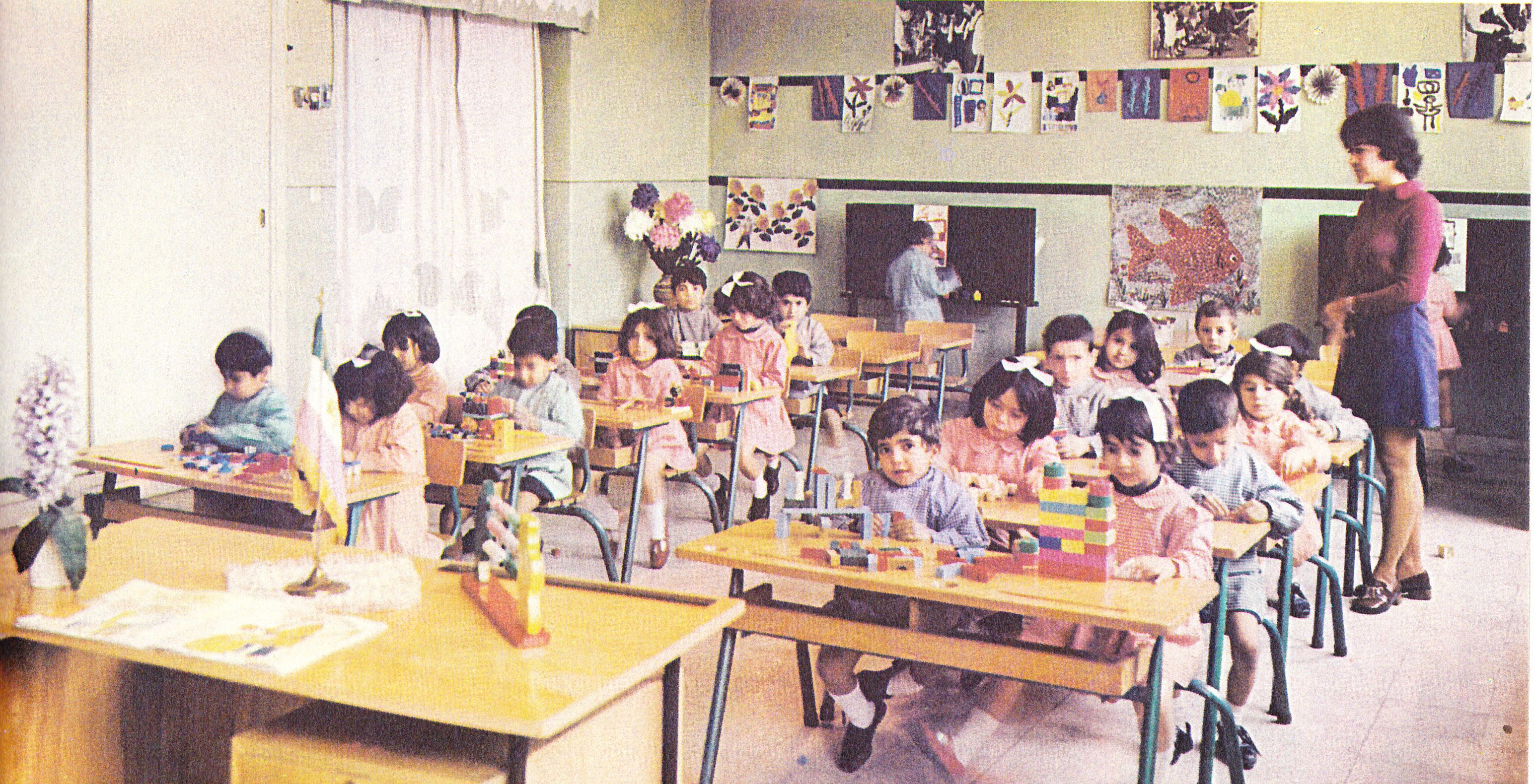 Preschool education in Iran